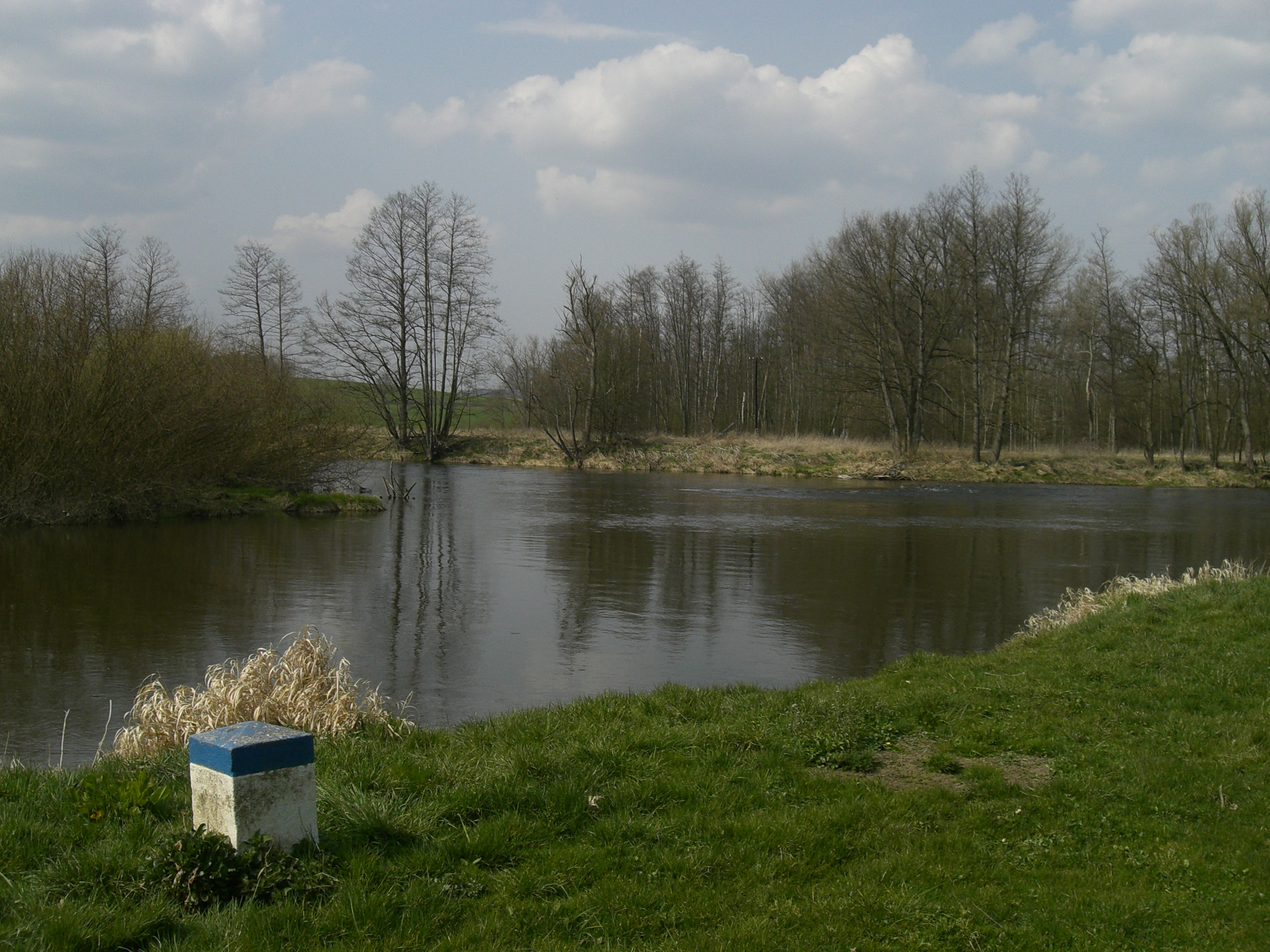 Confluence Blanice river with Otava river near Putim, Czech Republic.